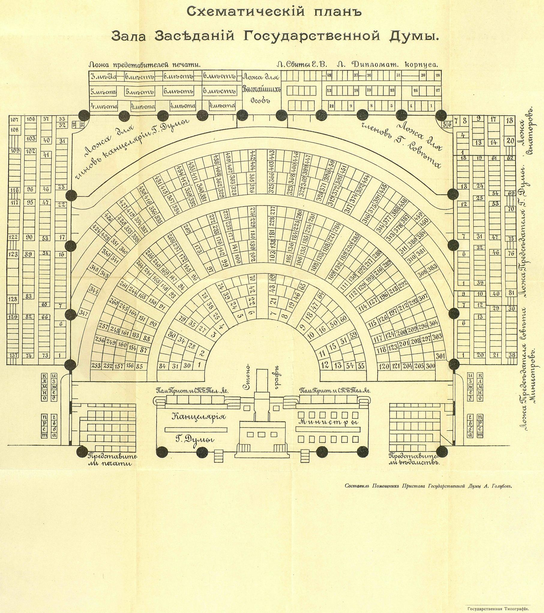 Seating plan of the State Duma of the Russian Empire.